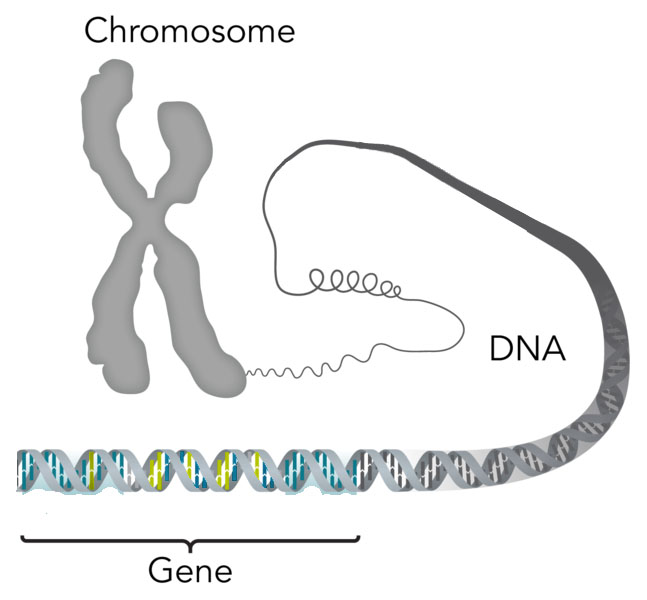 An x-shaped chromosome is made up of tightly wound strands of DNA. DNA has smaller sections, called genes, which can "code" for physical traits.